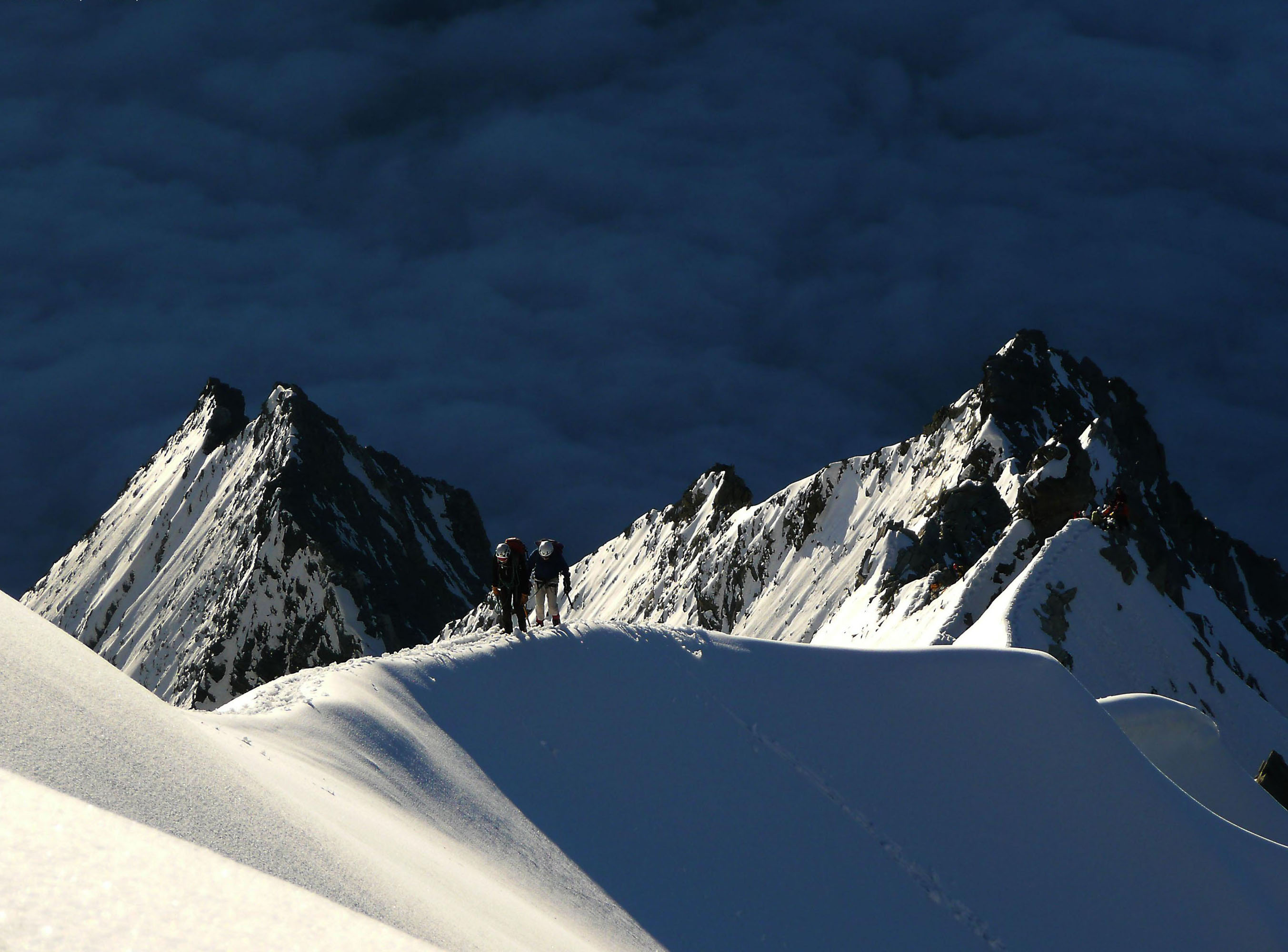 Weisshorn, east ridge (4350 m)